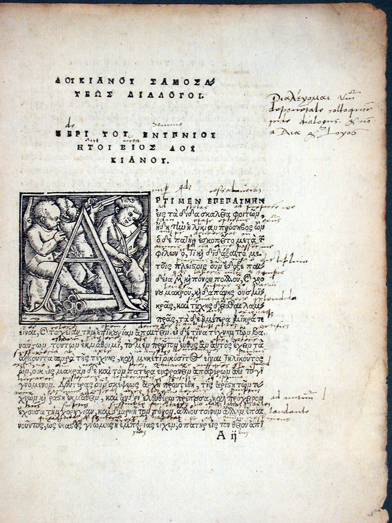 Page 2Ar from Lucian's Somnium